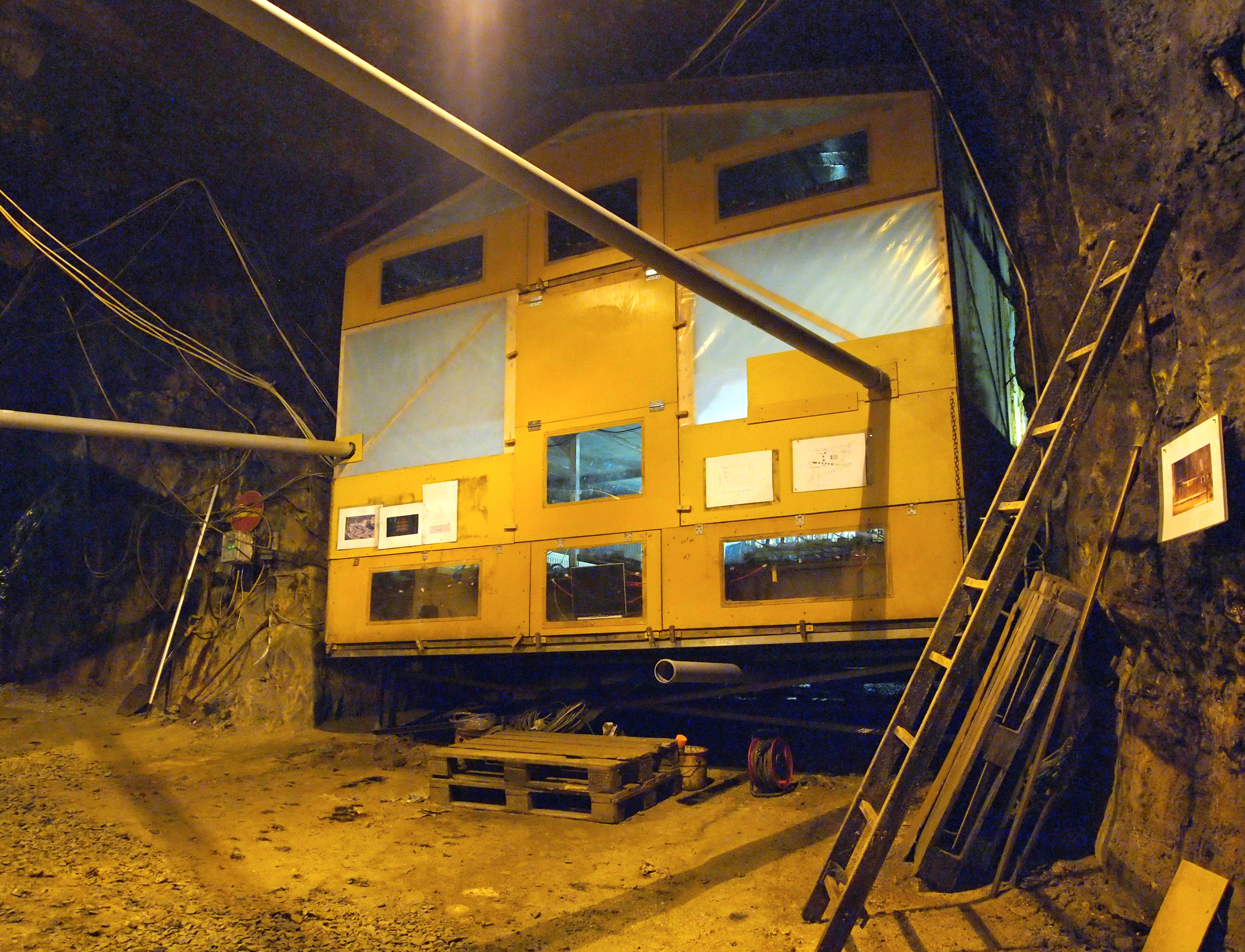 Measurement station C of EMMA experiment situated at the depth of 75 meters in Pyhäsalmi mine. The station includes detectors which observe the high-energy muons producted in the interaction between the primary cosmic particles and atmosphere.